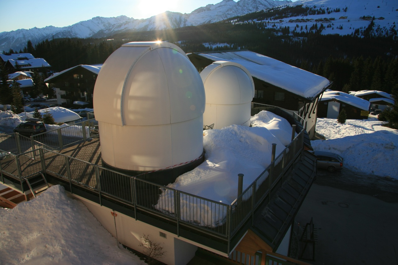 Those are thwo observatories, that were in use at night to watch stars.